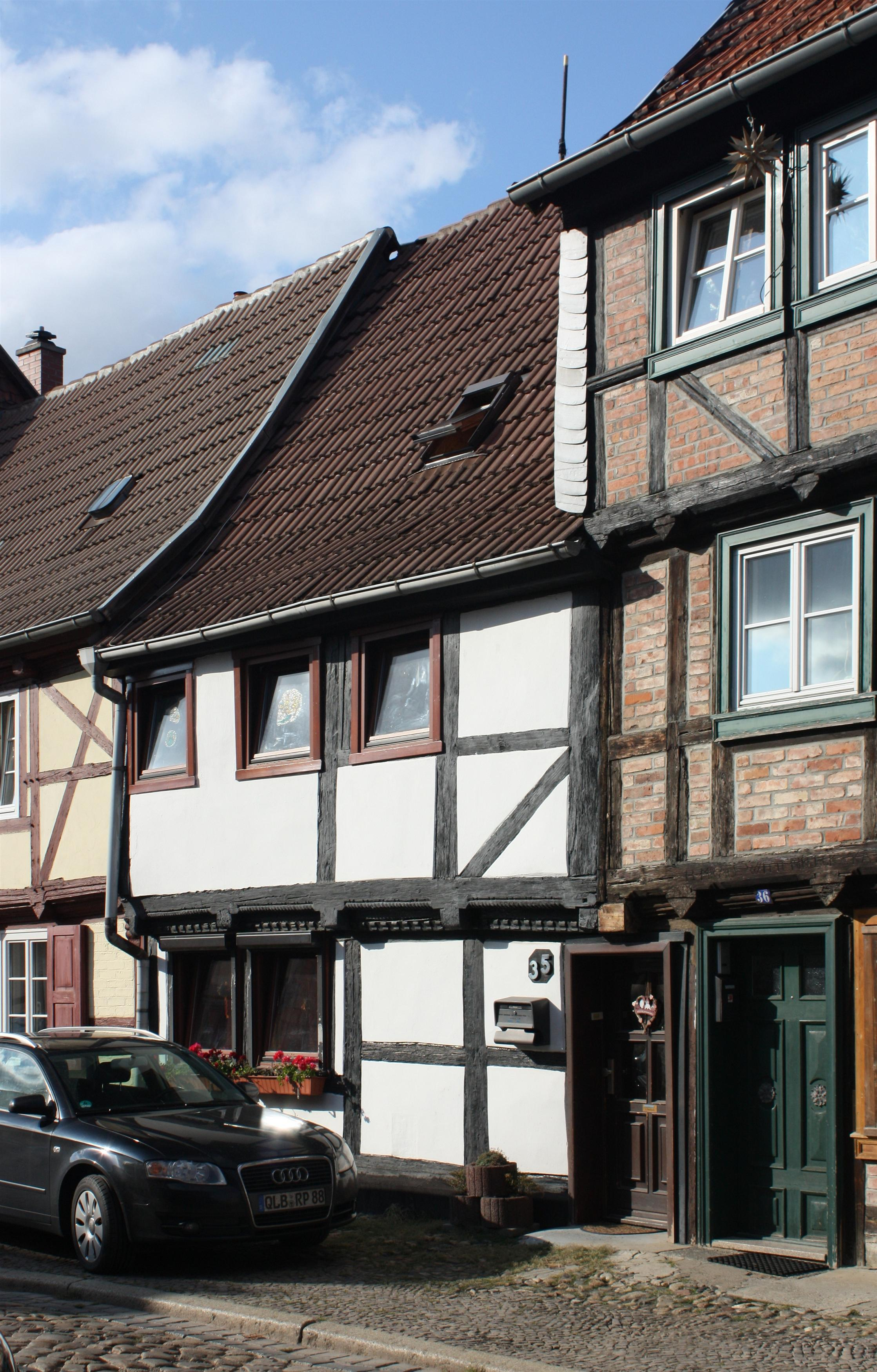 This is a photograph of an architectural monument.It is on the list of cultural monuments of Quedlinburg Augustinern 35 in Quedlinburg